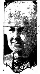 Ida Joe Brooks